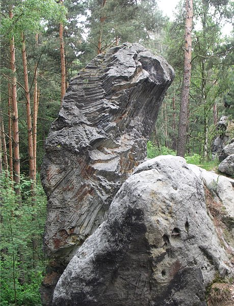 Dutý kámen, Lusatian Mountains, Czech Republic